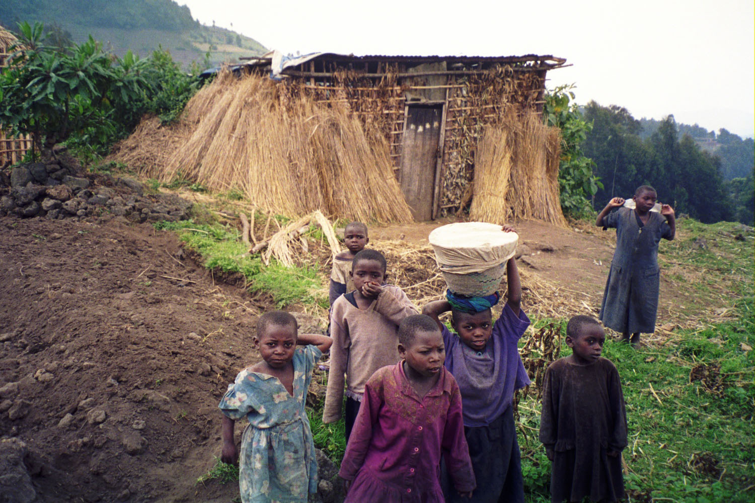 Original caption: Parc National des Volcans, Rwanda. August 4, 2005. Children on a Rwandan farm. Anywhere you go in Rwanda, as soon as you pull out a camera a group of curious children will form to meet the strangers and shyly pose. These children lived on the mountainside farms we crossed on the first part of our trek to see the gorillas.